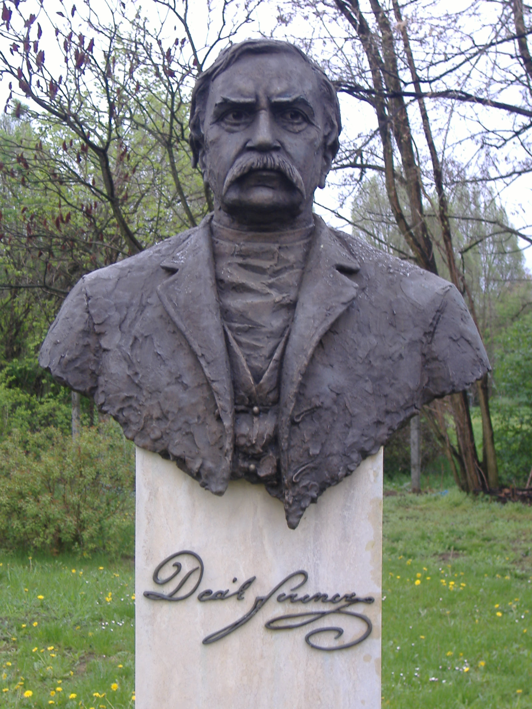 Statue of Ferenc Deák, the "wise man of the nation" in Berekfürdő, Hungary. Sculptor:Lajos Győrfi (*1960) in 2003